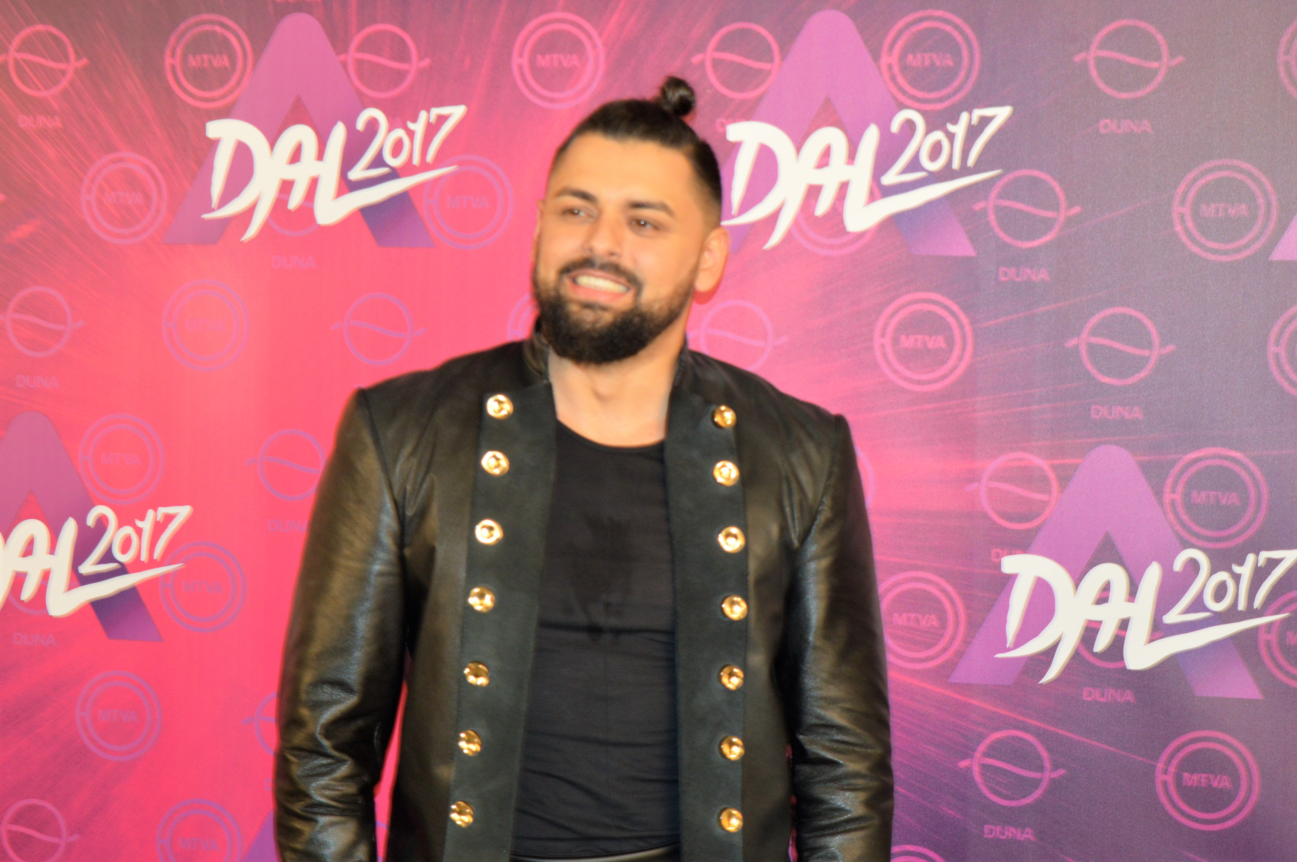 A Dal 2017 winner: Joci Pápai